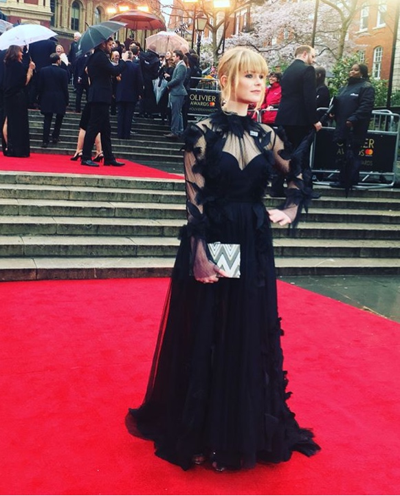 Hannah Arterton on the Olivier Awards red carpet at the Royal Albert Hall in 2018